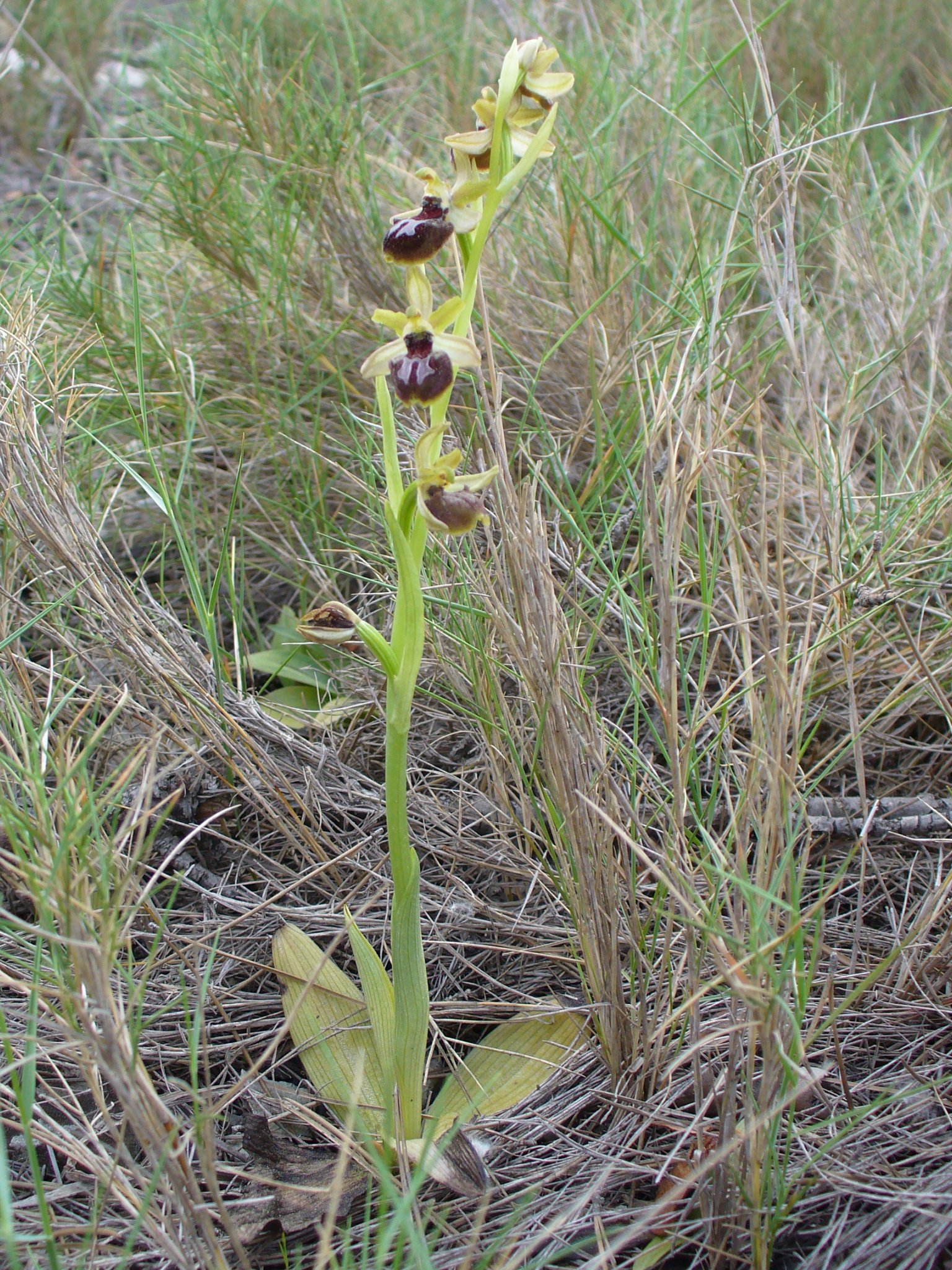 Ophrys provincialis plant